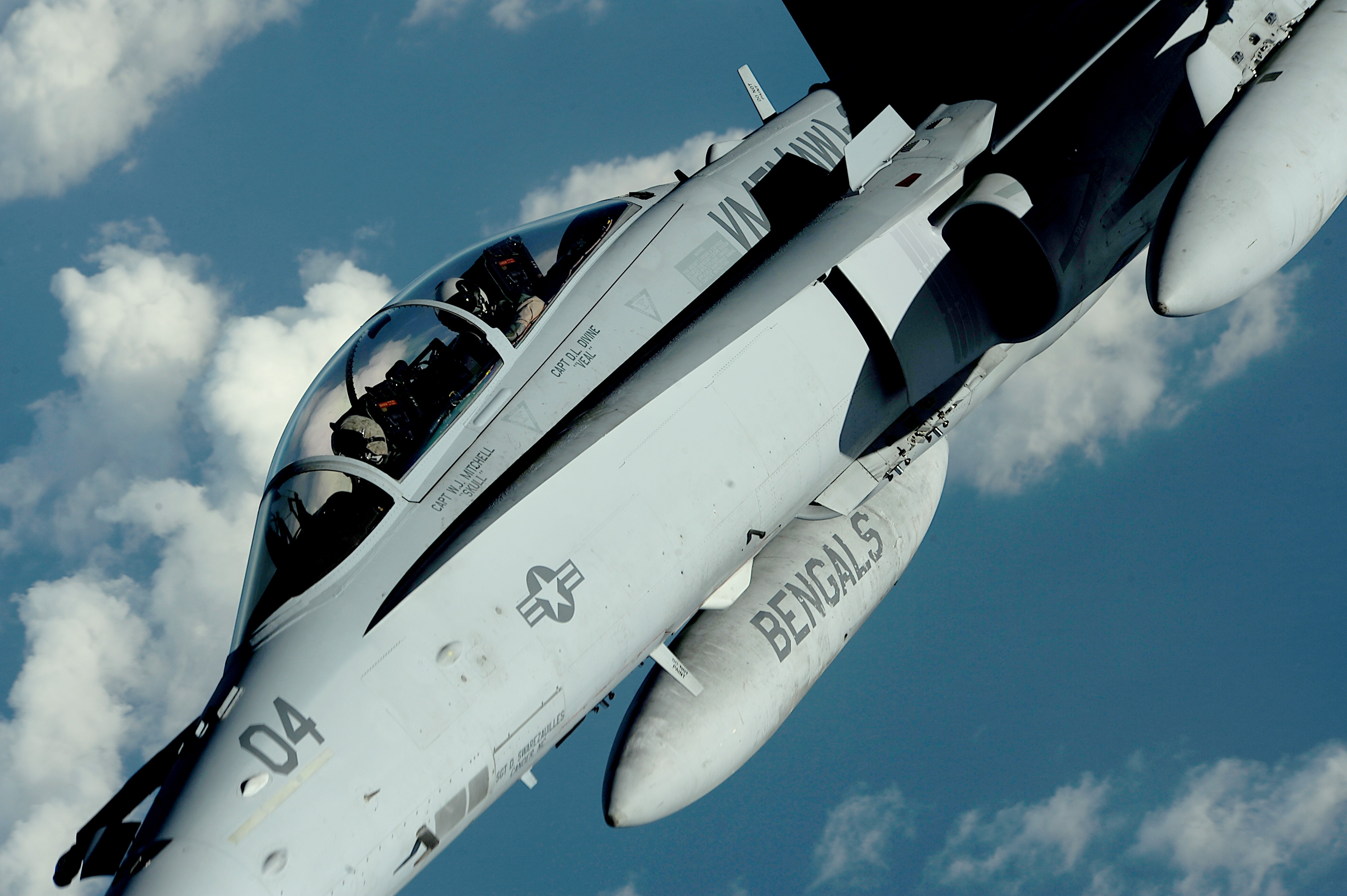 PEARL HARBOR (July 9, 2010) An F/A-18 Hornet assigned to the Fighting Bengals of Marine All Weather Fighter Attack Squadron (VFMA (AW)) 224 flies next to a KC-135 stratotanker assigned to 465th Air Refueling Squadron, 507th Air Refueling Wing, after receiving fuel during a refueling mission supporting Rim of the Pacific (RIMPAC) 2010 exercises. RIMPAC is a biennial, multinational exercise designed to strengthen regional partnerships and improve multinational interoperability. (U.S. Air Force photo by Master Sgt. Jeremy Lock/Released)